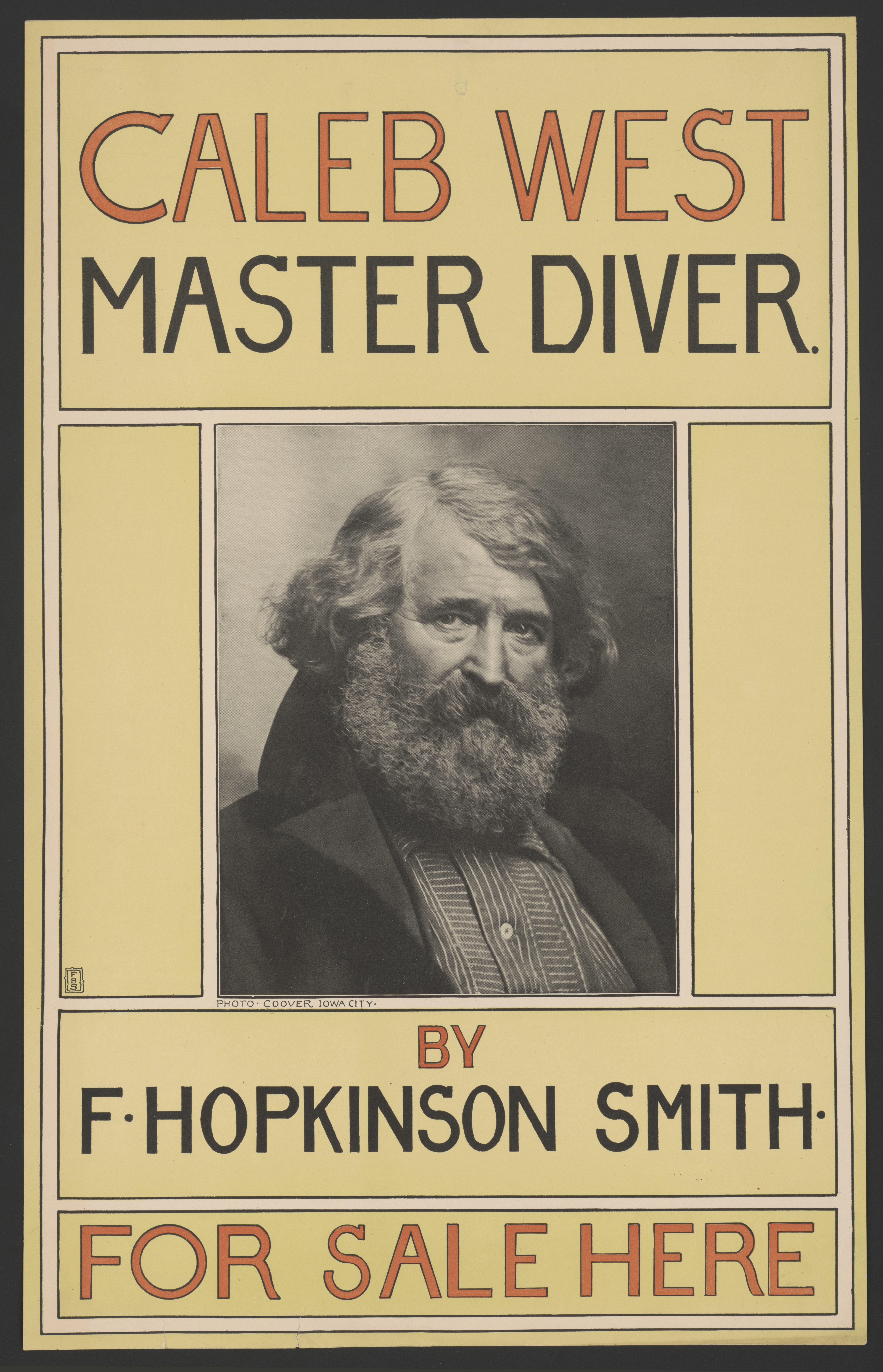 Title: Caleb West master diver by F. Hopkinson Smith. For sale here Abstract/medium: 1 print : color lithograph ; sheet 54 x 34 cm (poster format)